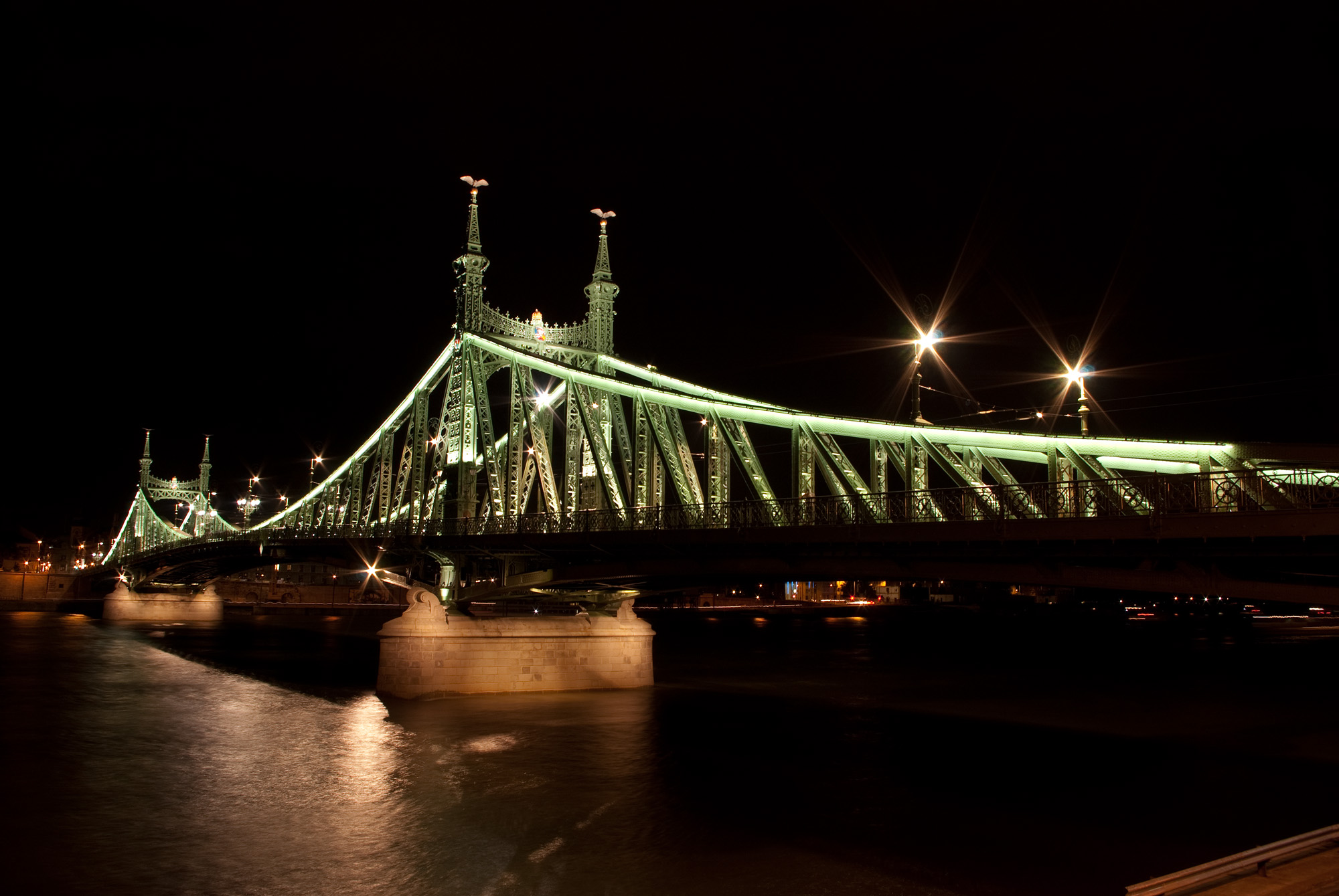 Liberty Bridge, Budapest with floodlights